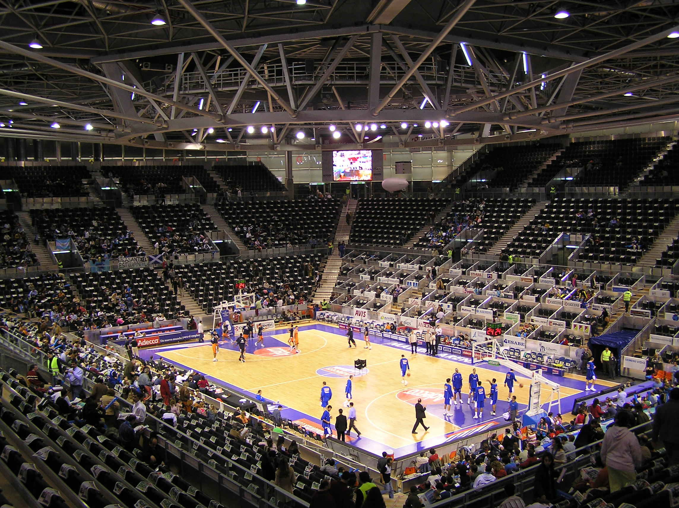 Madrid Arena Inside (Madrid, Spain) Author: Mr. Tickle Date: 19th November, 2005